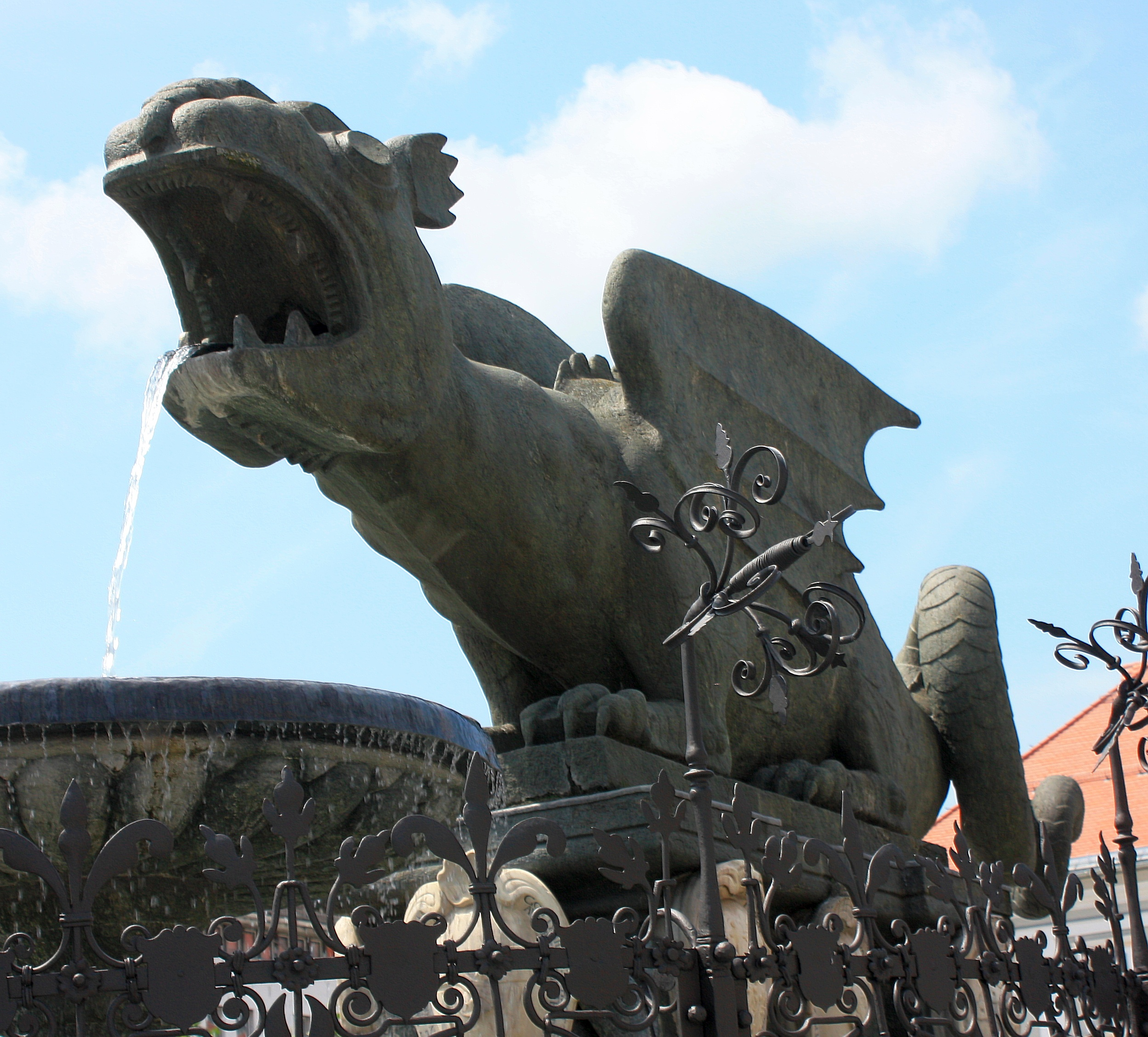 Lindworm Locality: Neuer Platz Community:Klagenfurt